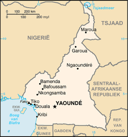 An Afrikaans map of Cameroon.